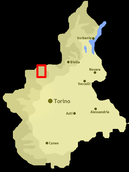 Soana valley position within Piedmont (NW Italy)